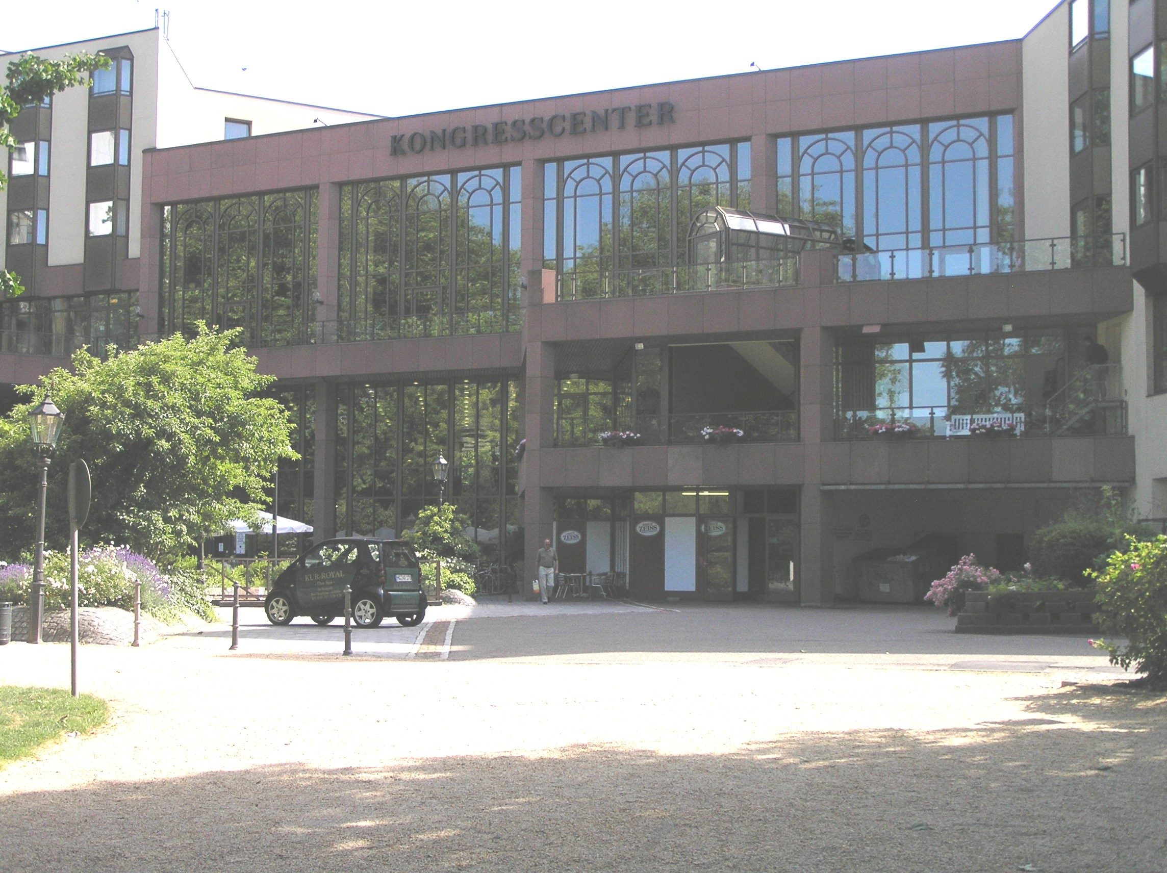 Kurhaus (Spa centre) Bad Homburg, Germany, 2008, from garden